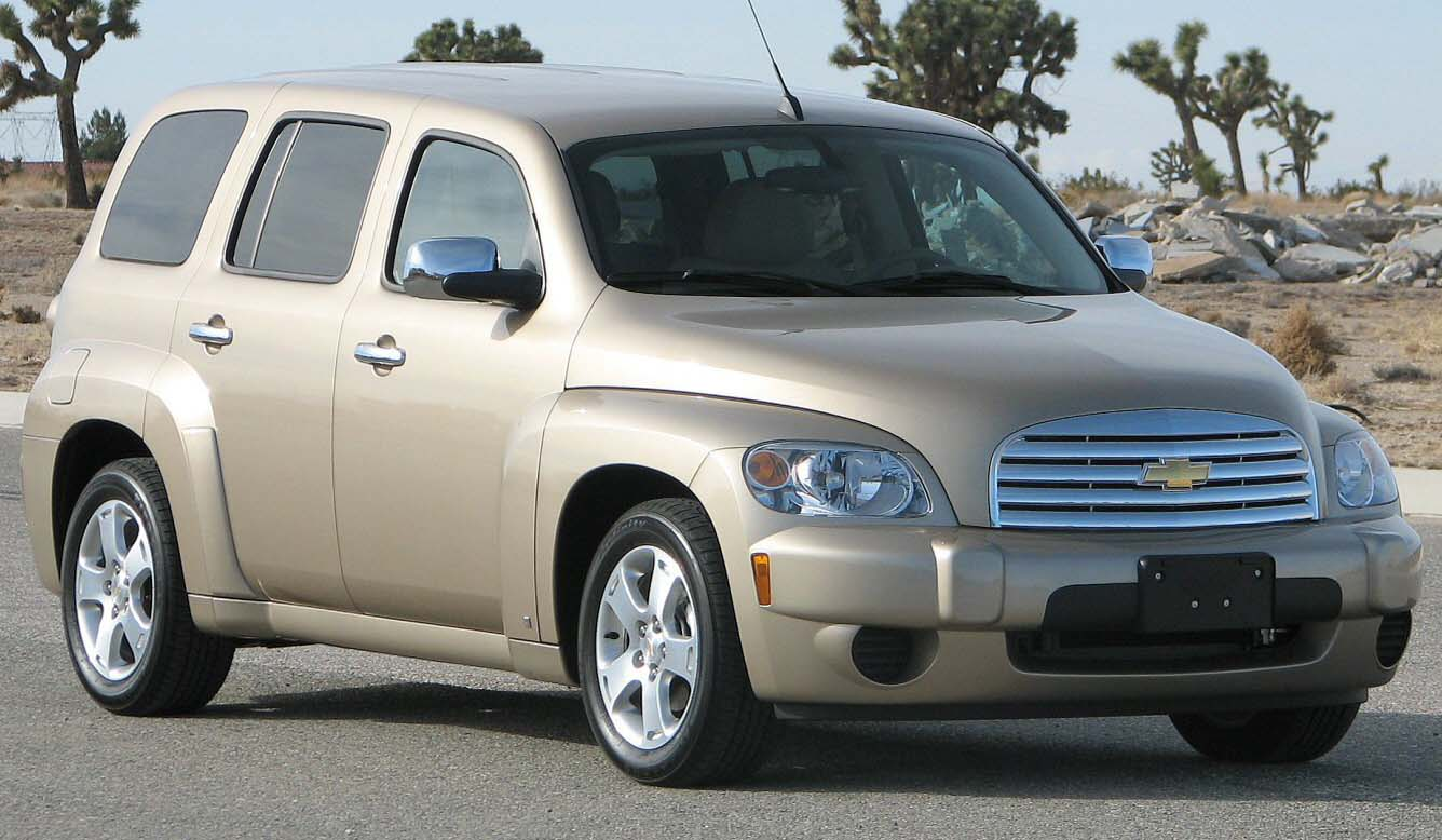 2006 Chevrolet HHR photographed in USA.